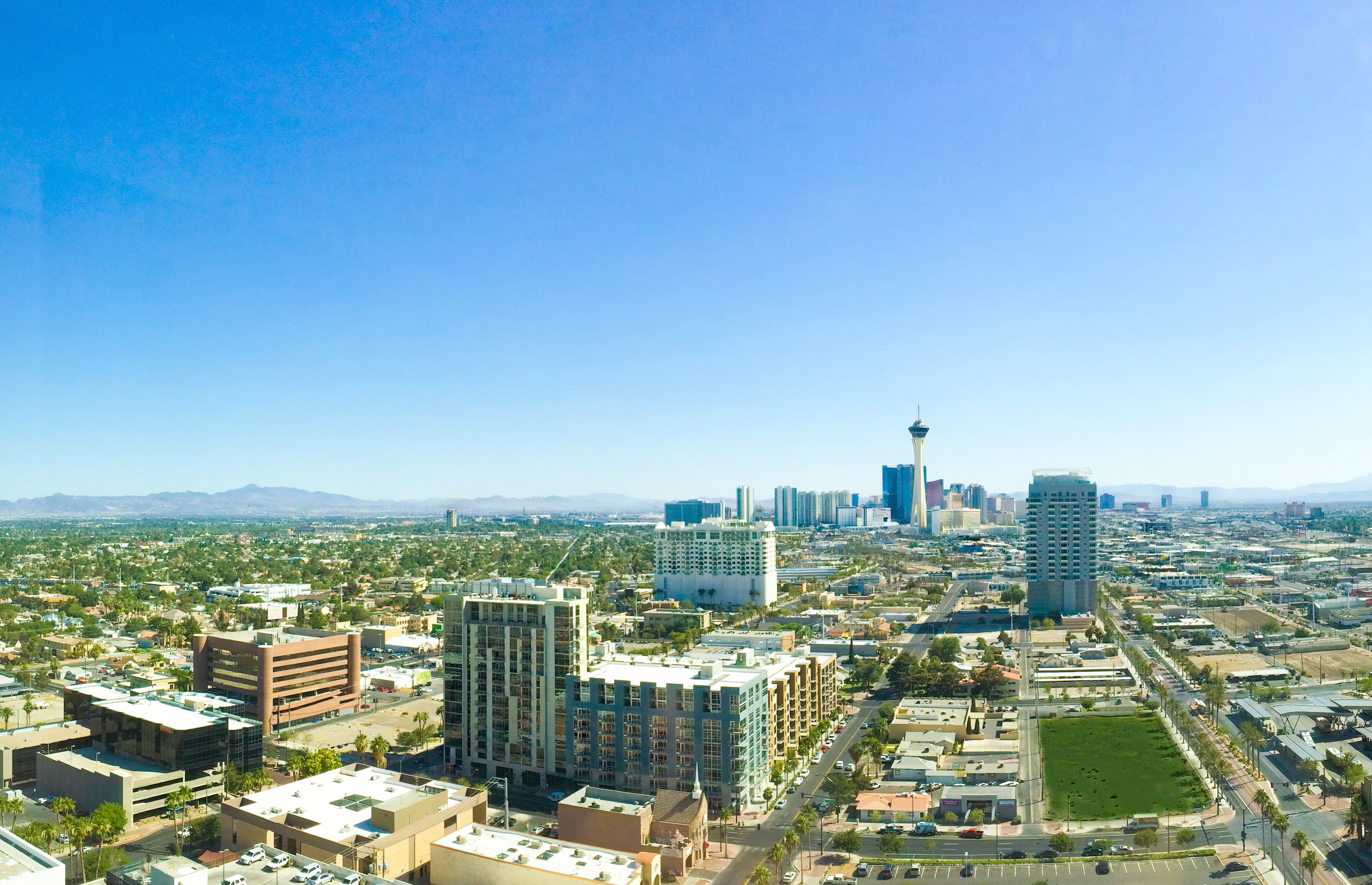 Downtown Las Vegas with the Las Vegas Valley in the background, as seen from the Nevada Supreme Court.